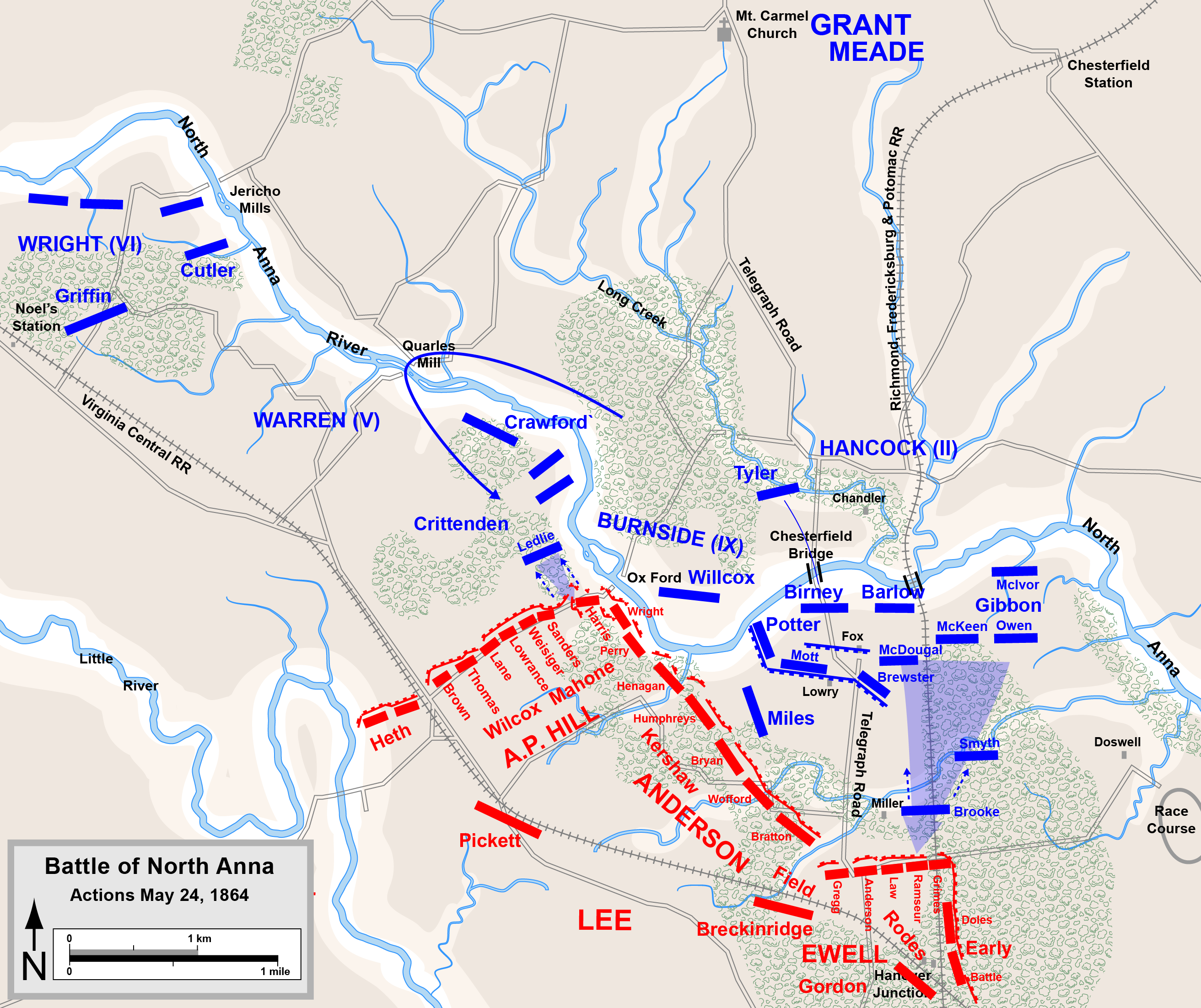 One of a series of four maps of the Battle of North Anna of the American Civil War, drawn in Adobe Illustrator CS5 by Hal Jespersen. Graphic source file is available at Attribution: Map by Hal Jespersen